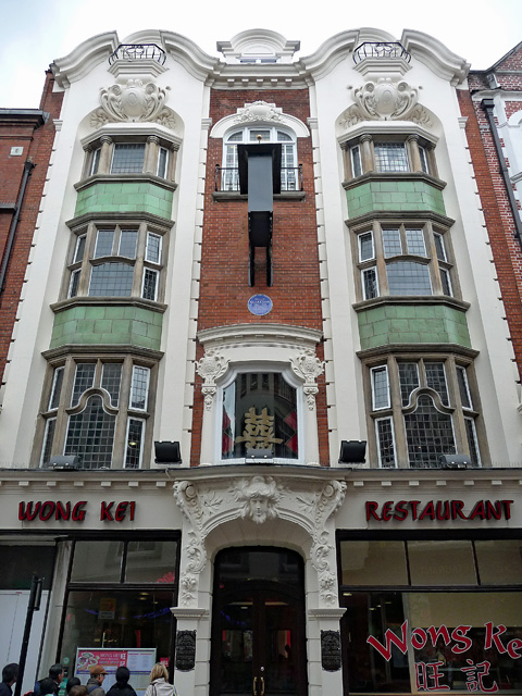 41-43 Wardour Street